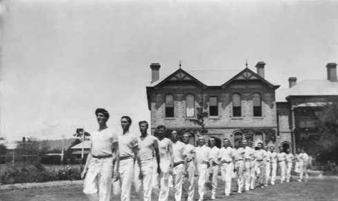 The gymnasium team from Concordia College walking in a line in front of the main building.